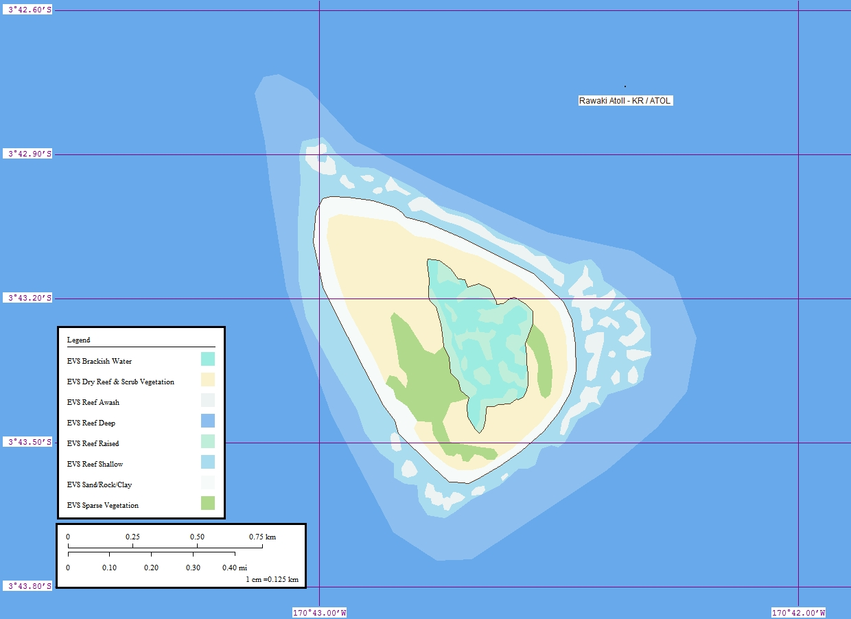 Map of Rawaki Island, Phoenix Islands, Kiribati